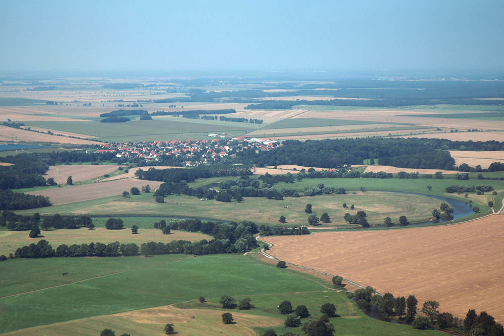 Aerial view of Zschepplin at the River Mulde near Eilenburg